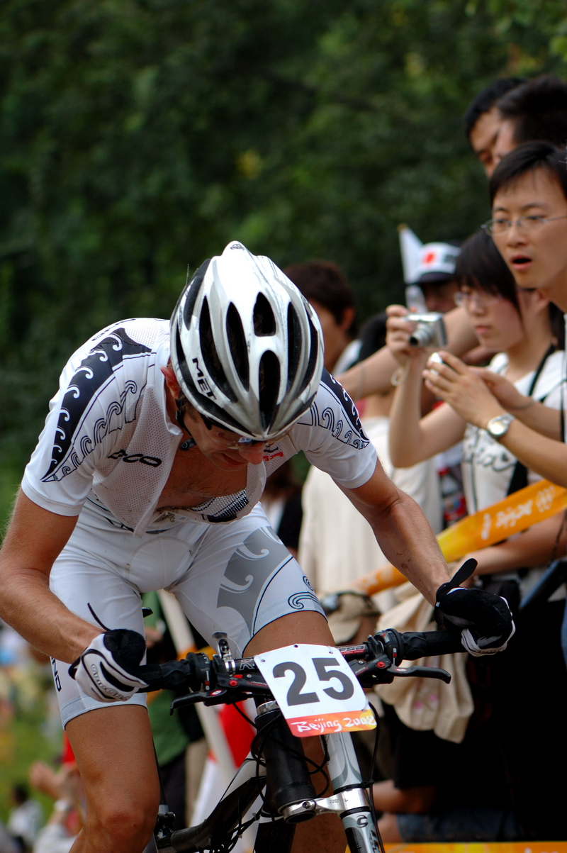 Cycling at the 2008 Summer Olympics – Men's cross-country - Kashi Leuchs (New Zealand)